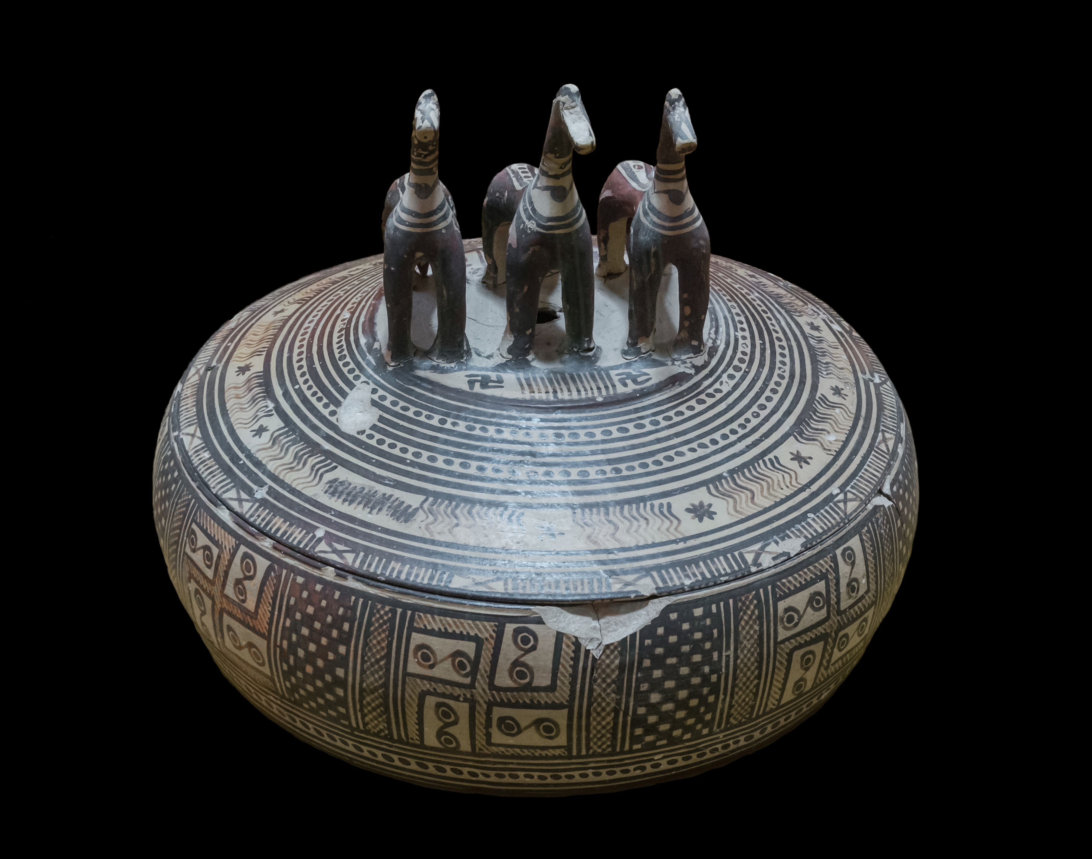 An ancient greek Pyxis. The lid is ornated with horses. Late geometric period, ca.725 BCE, Athens.